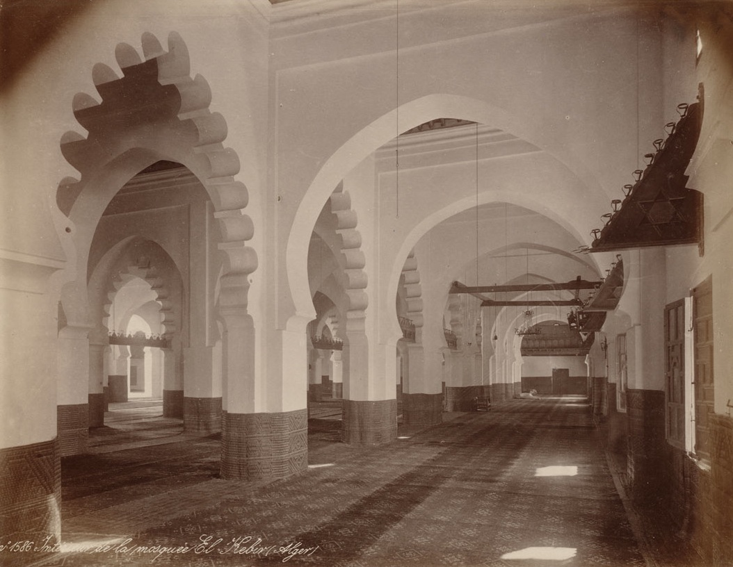 BPLDC no.: 08_04_000354 Page Title: Interior of Grand mosque Collection: Tupper Scrapbooks Collection Album: Volume 1: Algeria. Call no.: 4098B.104 v1 (p. 30) Creator: Tupper, William Vaughn Genre: Scrapbooks; Albumen prints Extent: 1 photographic print mounted on page : albumen ; page 33 x 39 cm. Description: Scrapbook page contains one photograph showing the interior of the Grand mosque, Djamäa el Kebir, with annotated information about its architecture. Transcription: The interior is a succession of aisles, bare of ornament. There is nothing in the Algerian mosques to compare with those of Cairo. Notes: Page description supplied by cataloger, derived from captions and/or annotated information.; Caption on image: No. 1586 Intérieur de la mosquée El Kebir (Alger) BPL Department: Print Department Rights: No known restrictions. Flickr data on 2011-08-15: Camera: Sinar AG Sinarback 54 FW, Sinar m License: CC BY 2.0 User: Boston Public Library BPL